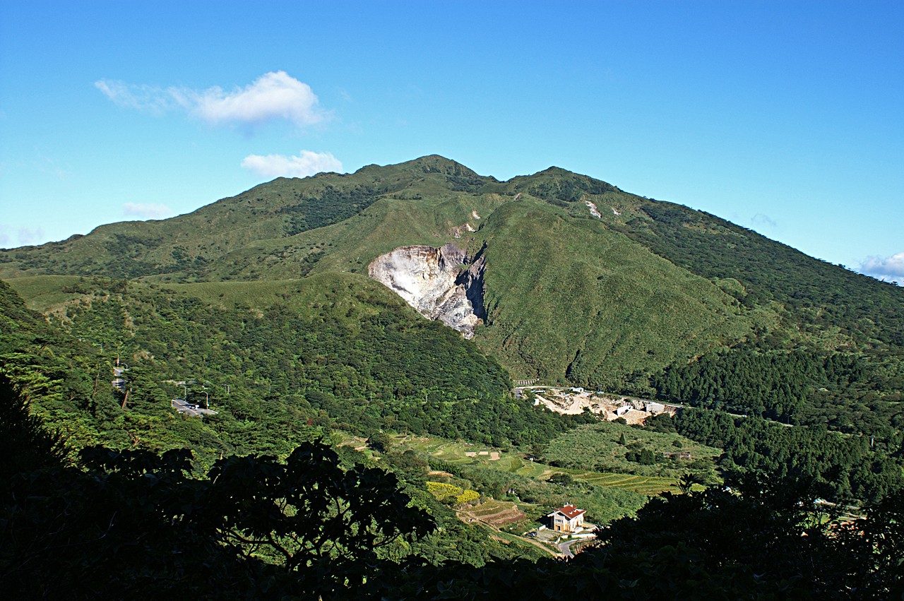 Chihsingshan (七星山), the highest peak of the Tatun volcanoes, Taiwan, has a height of 1120 m.